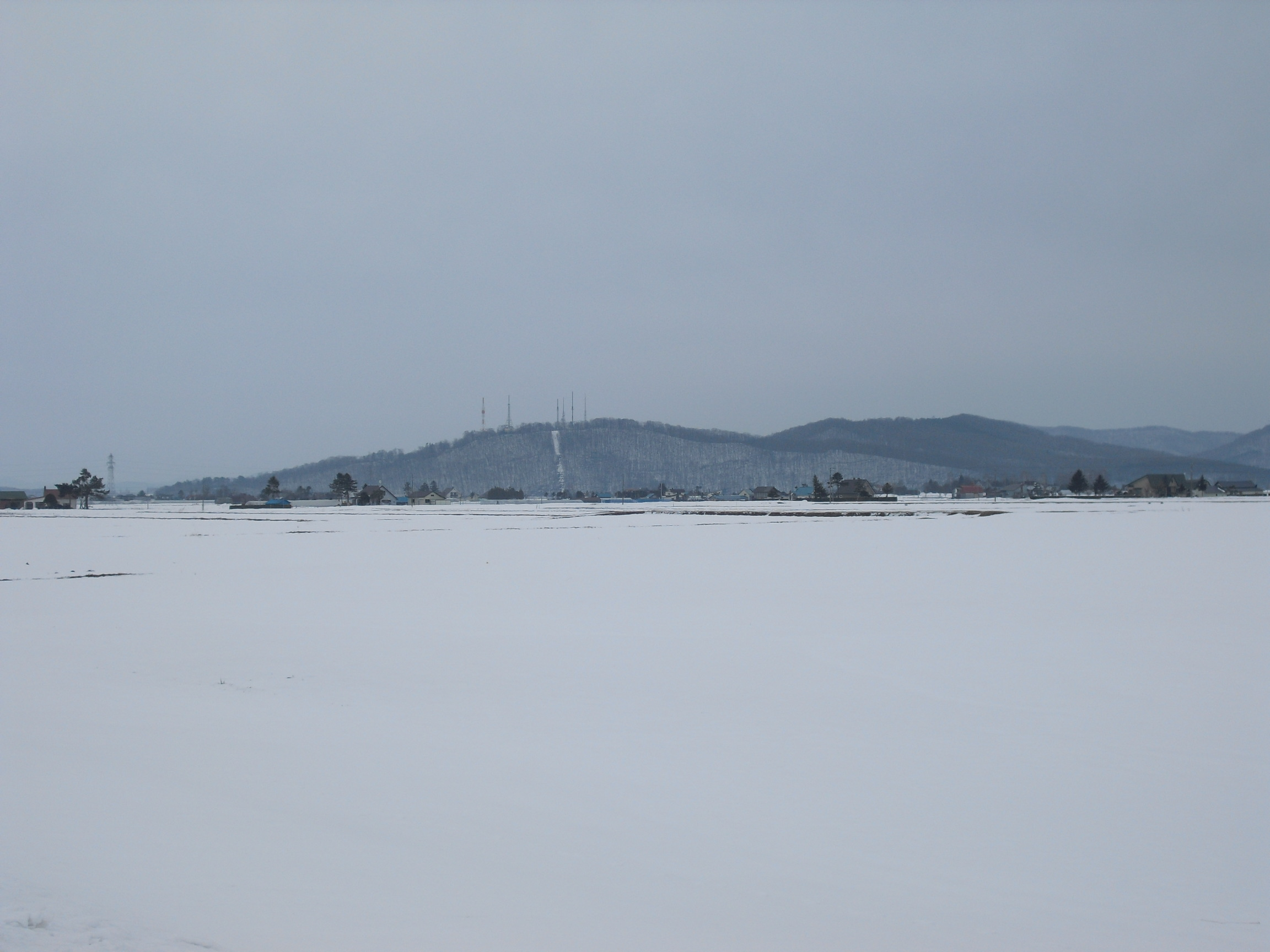 Mount Asahi (Asahi-yama) as seen from the southwest in Asahikawa, Hokkaido, Japan.